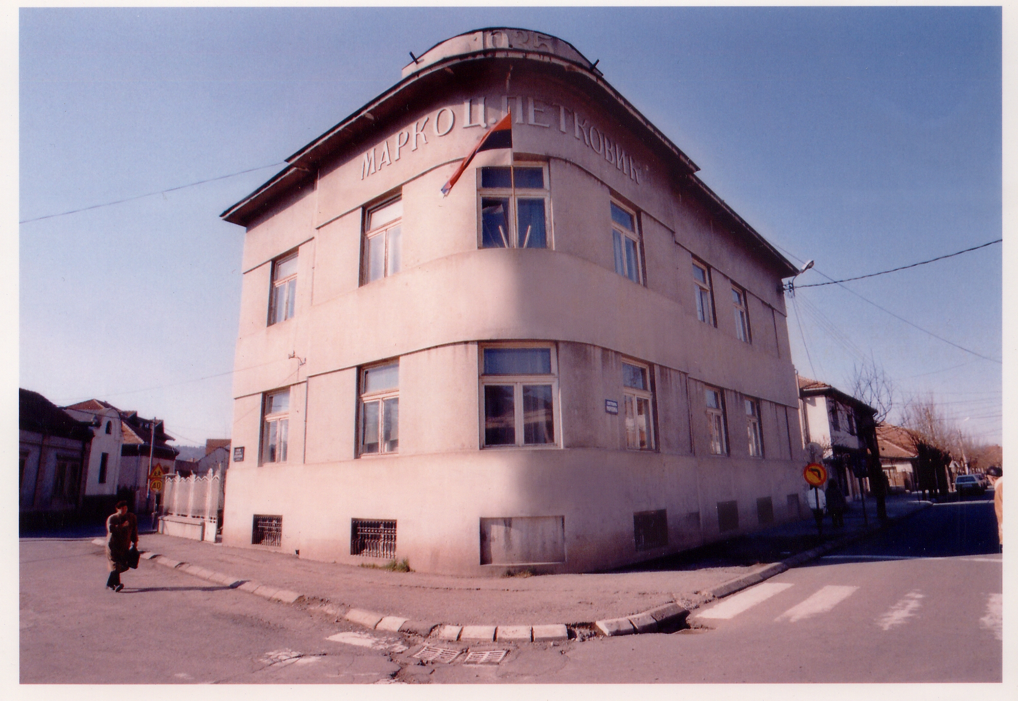 Public Library Zajecar